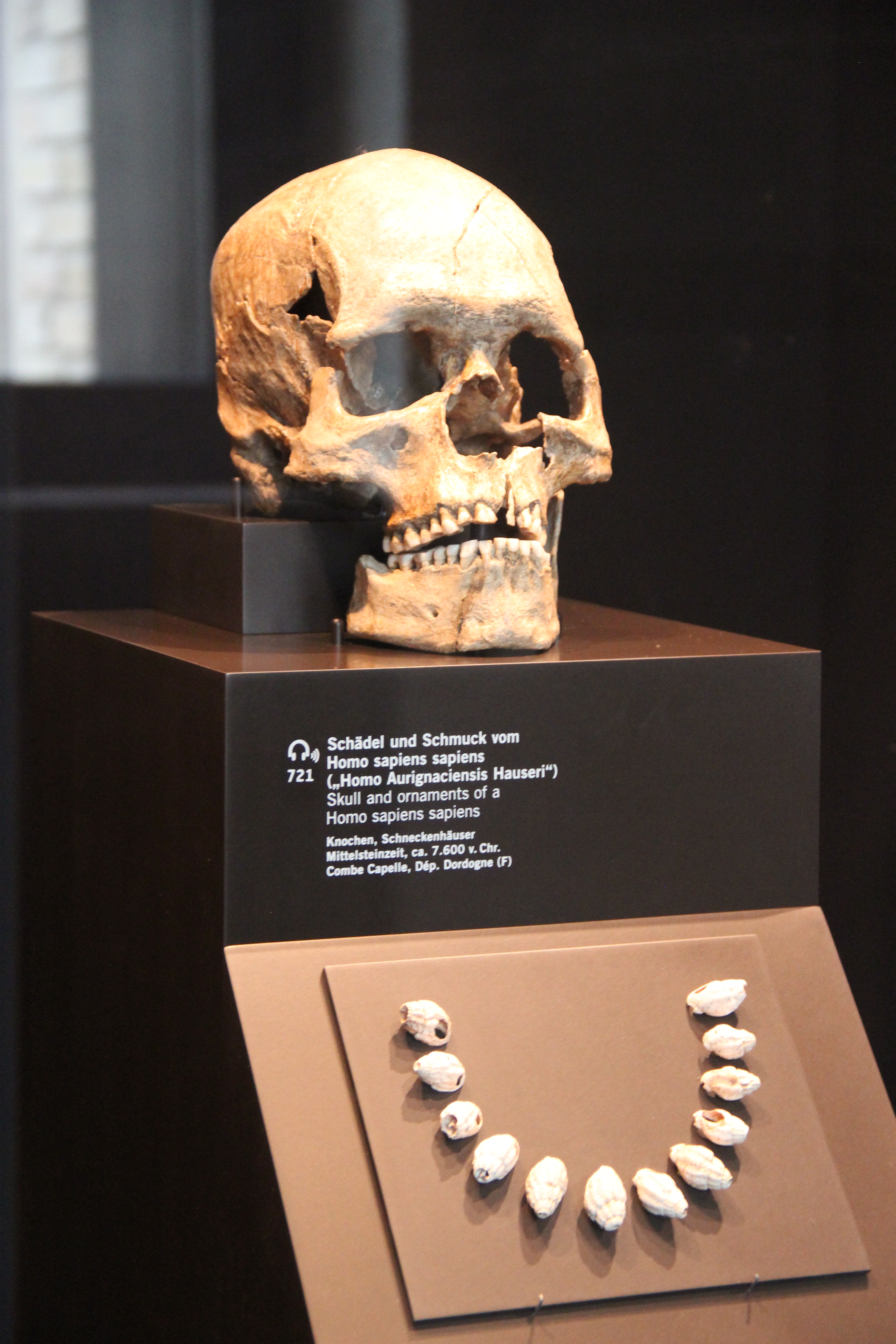 Combe-Capelle man Skull & Ornaments circa 7,600 BC Stone Age Gallery, Neues Museum, Berlin, Germany. Complete indexed photo collection at .